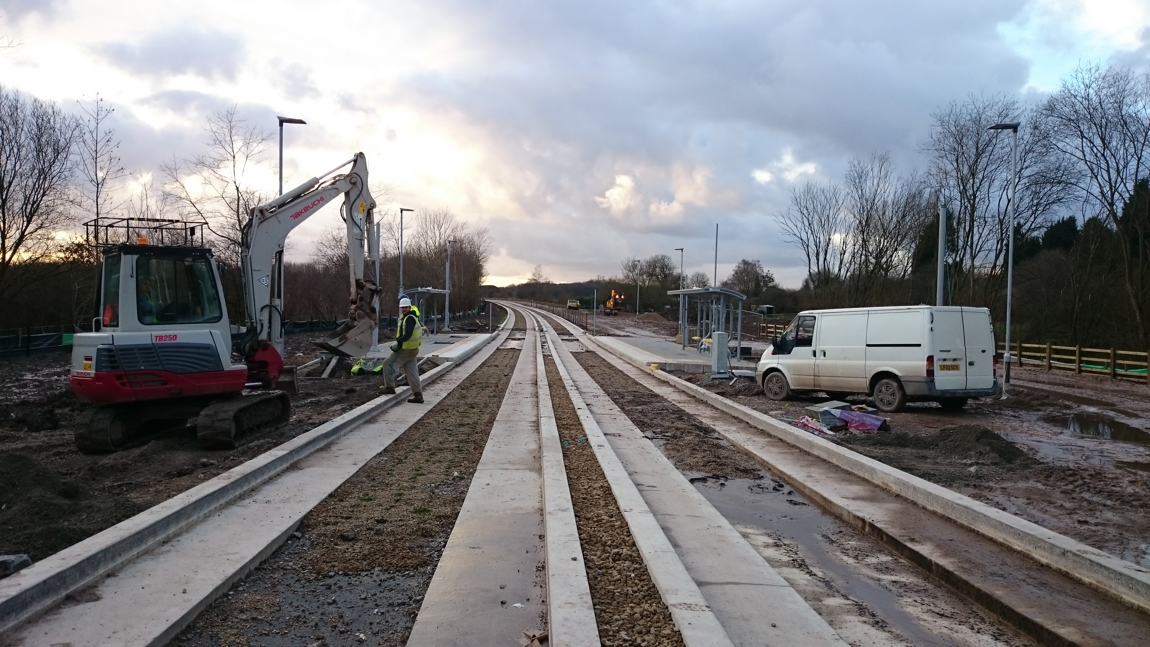 Guided busway